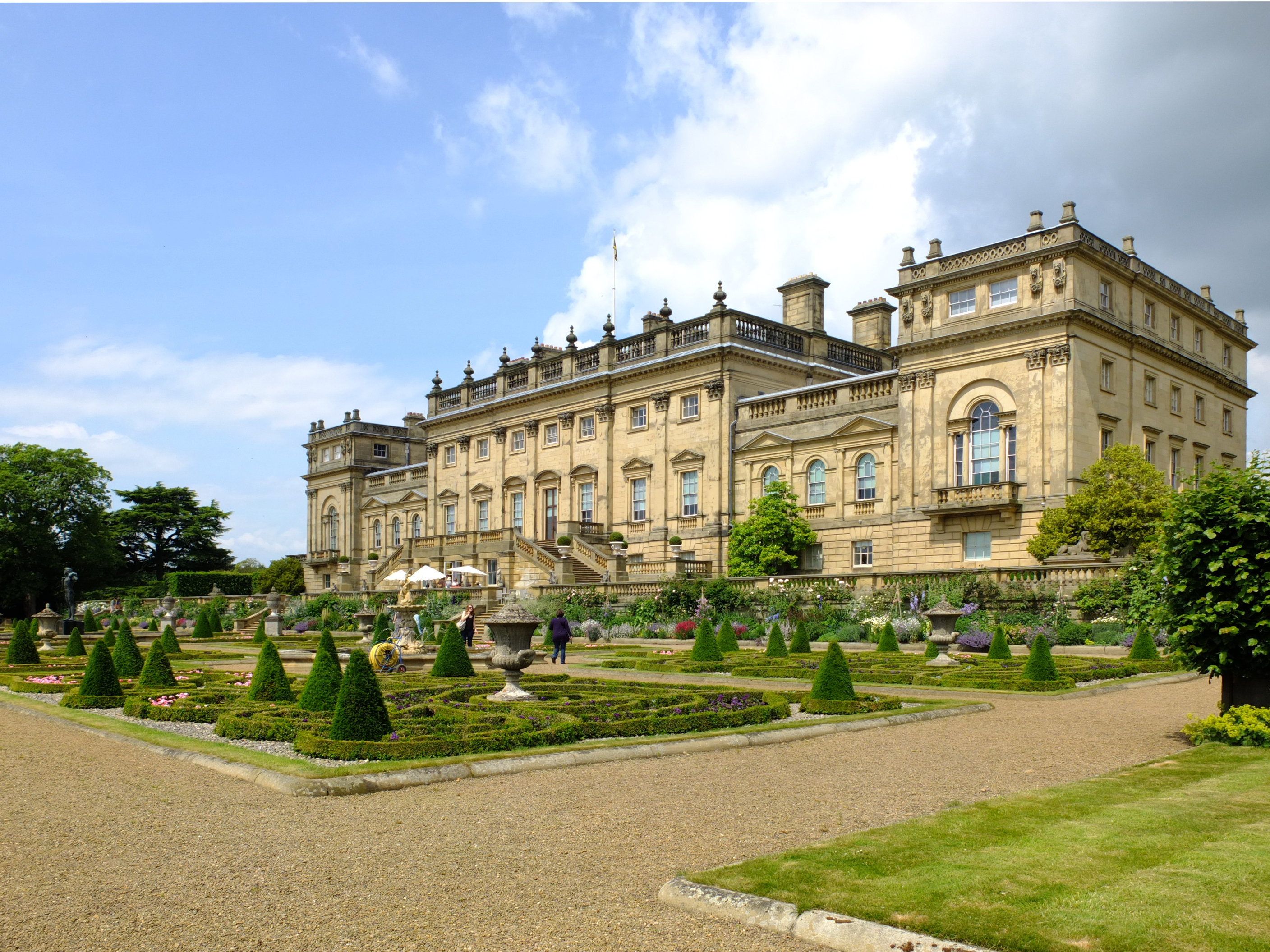 Harewood House seen from the south east